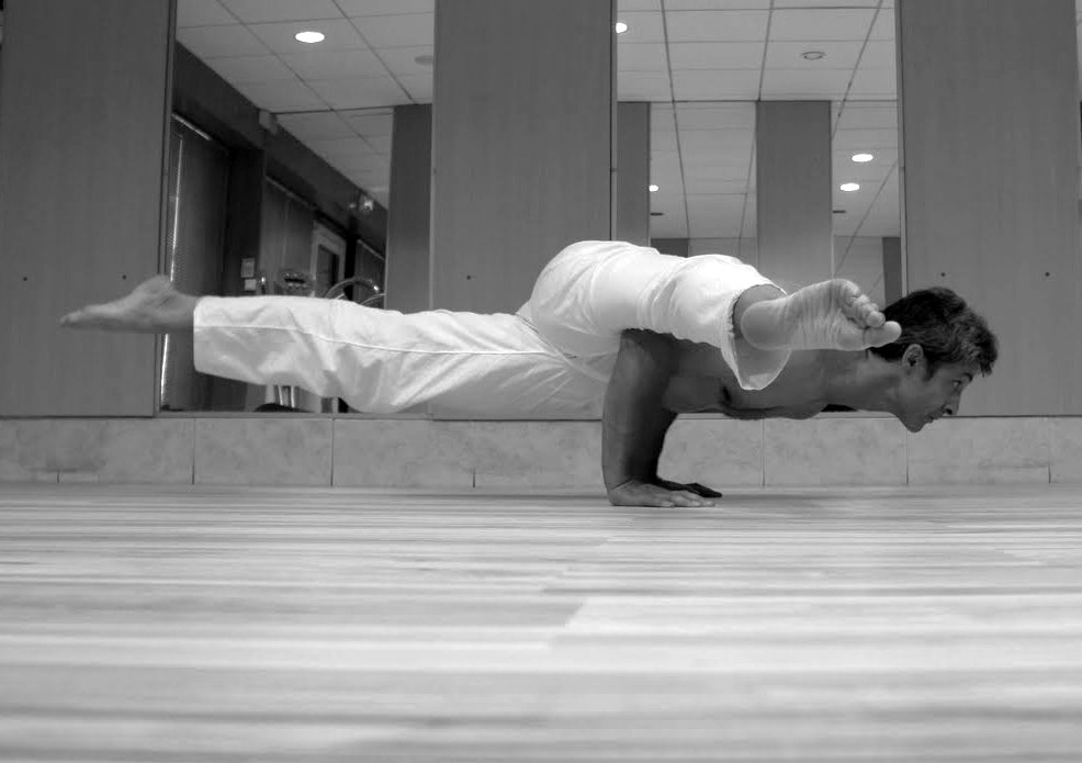 Arm balance yoga posture Eka pada koundinyasana